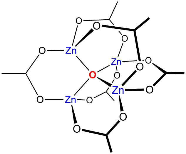 chem structure of zinc acetate